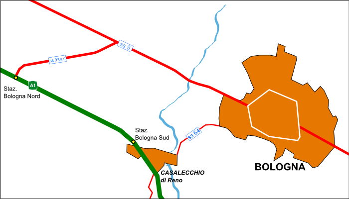 Map of important roads in Bologna, Italy, back in 1960. Own work.